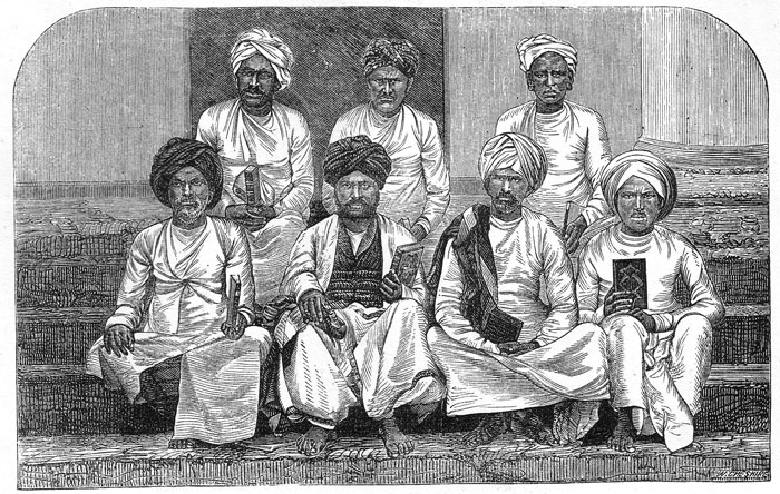 Syrian Christians in Kerala, India.